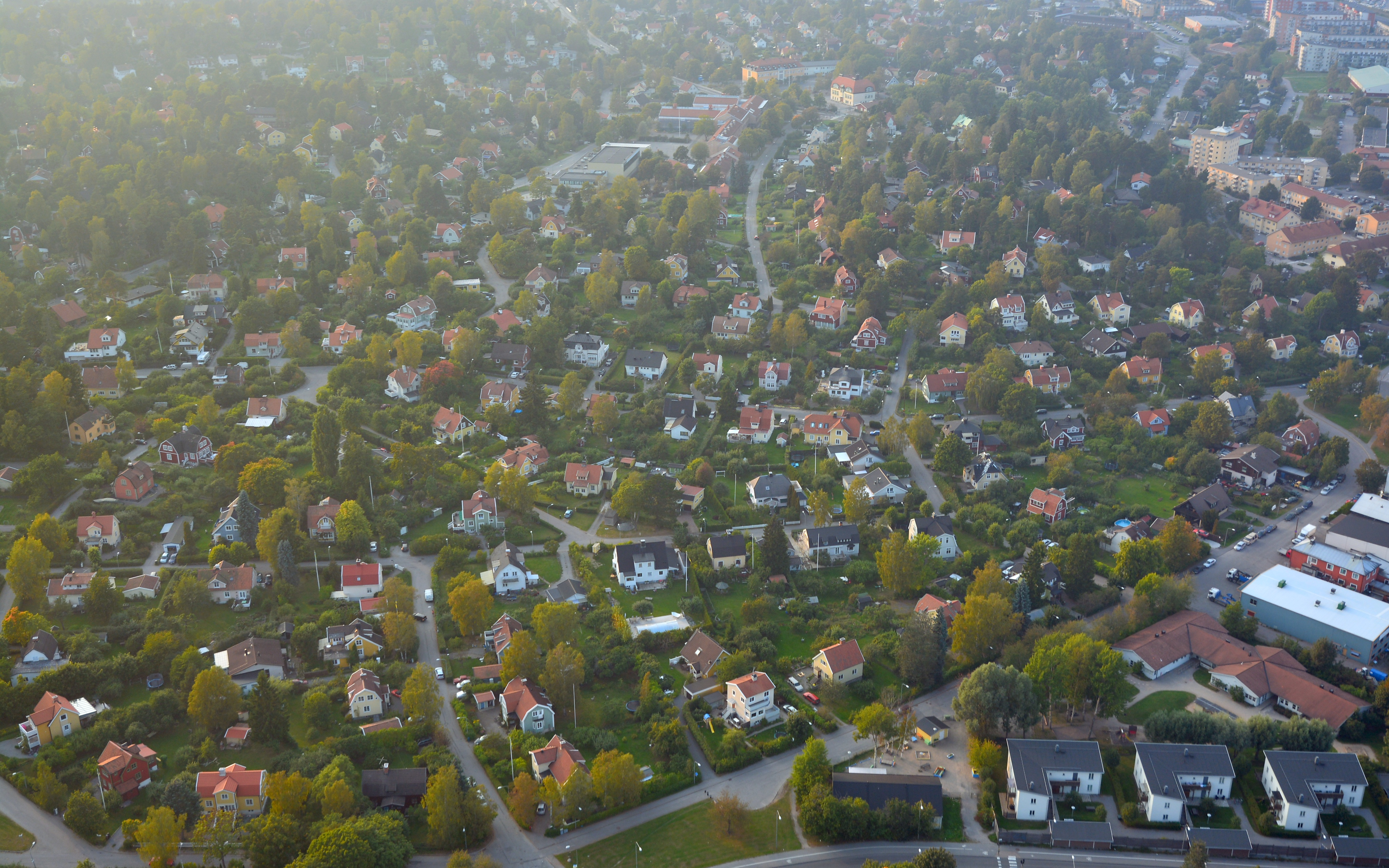 Spånga in western Stockholm, Sweden.